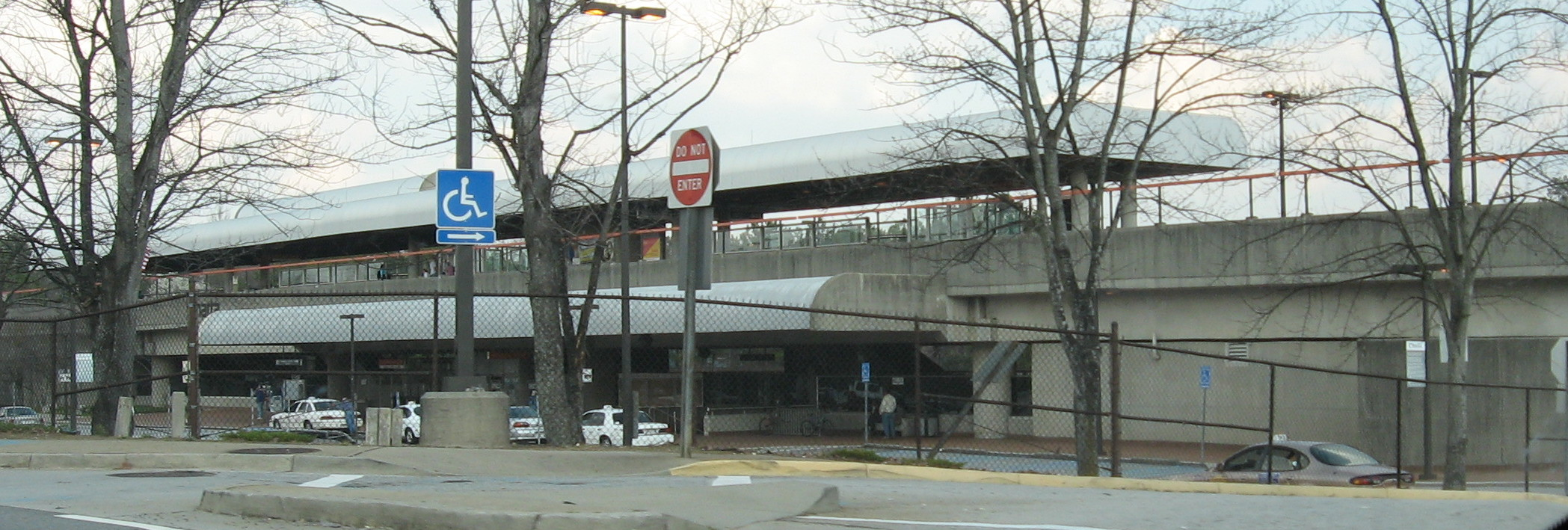 Image by Biomedeng of MARTA's Brookhaven station